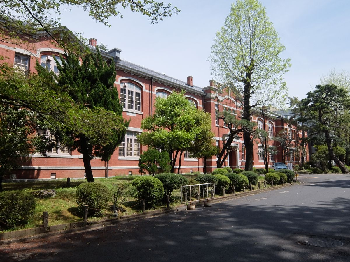 Research Bldg No 14 (Former Faculty of Engineering Department of Civil Engineering Historic Bldg)